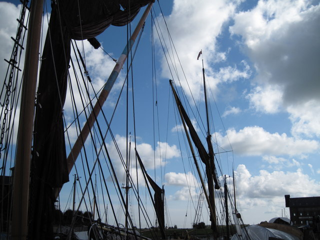 Thames barges Moored at Faversham creek